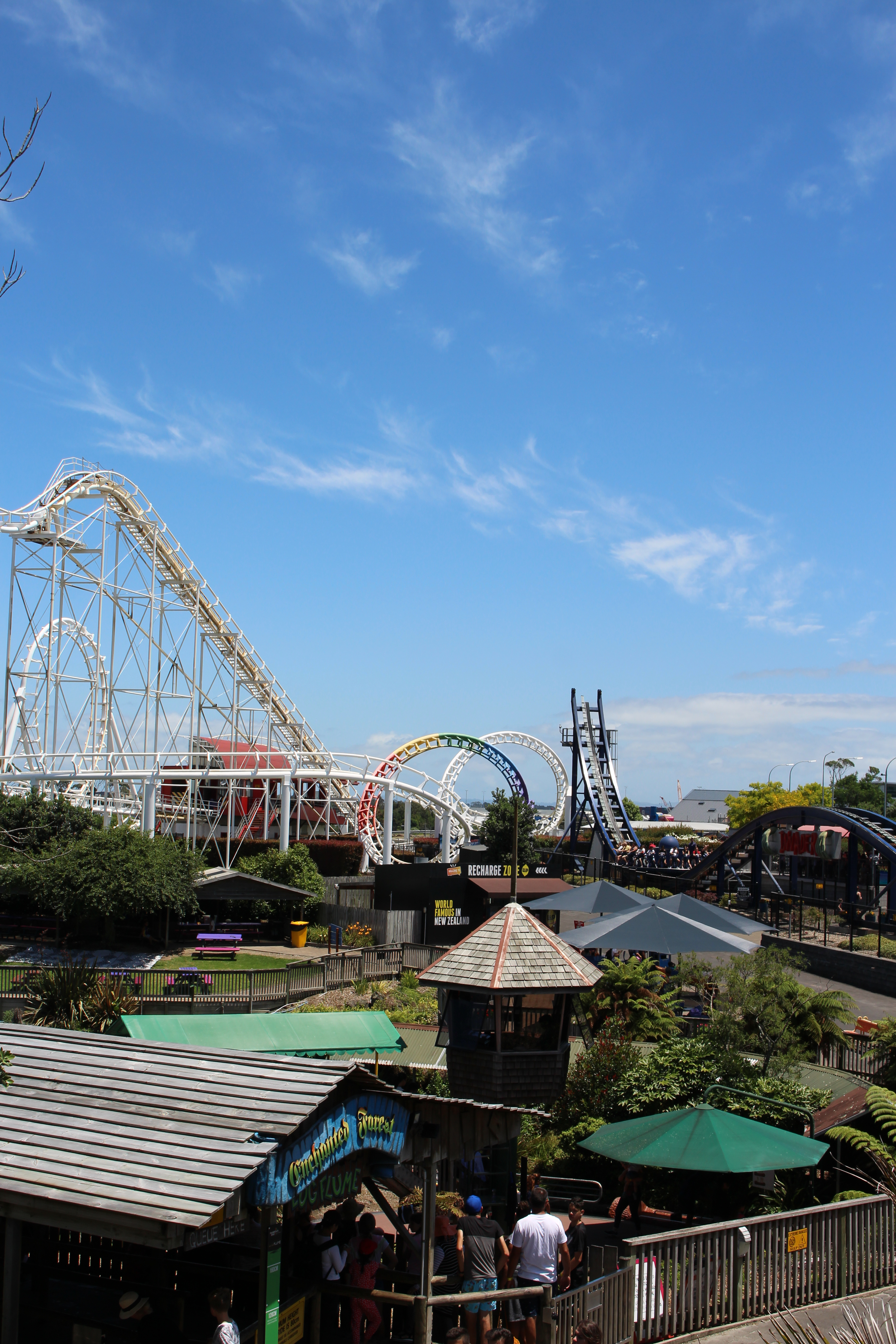 Rainbow's End Downhill - Taken from "Lookout" Picnic Area.